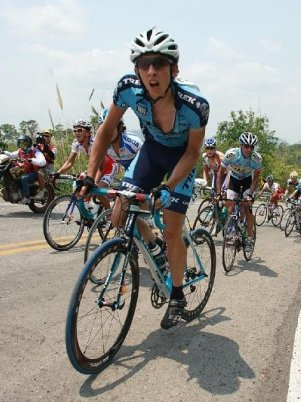 James Spragg at the 2009 Tour de Thailande